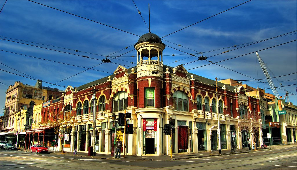 Champion Hotel, corner of Brunswick and Gertrude St, Fitzroy, Melbourne